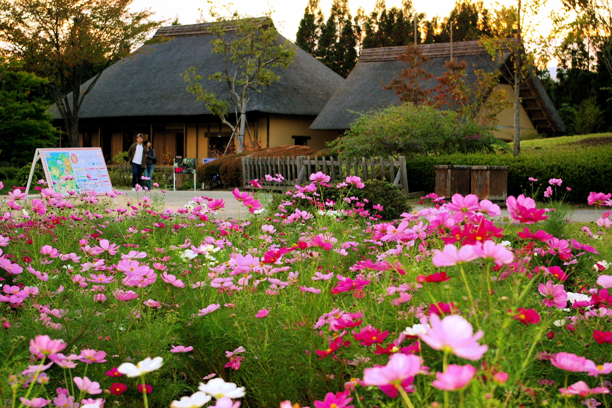 traditional houses and cosmos garden in michinoku park